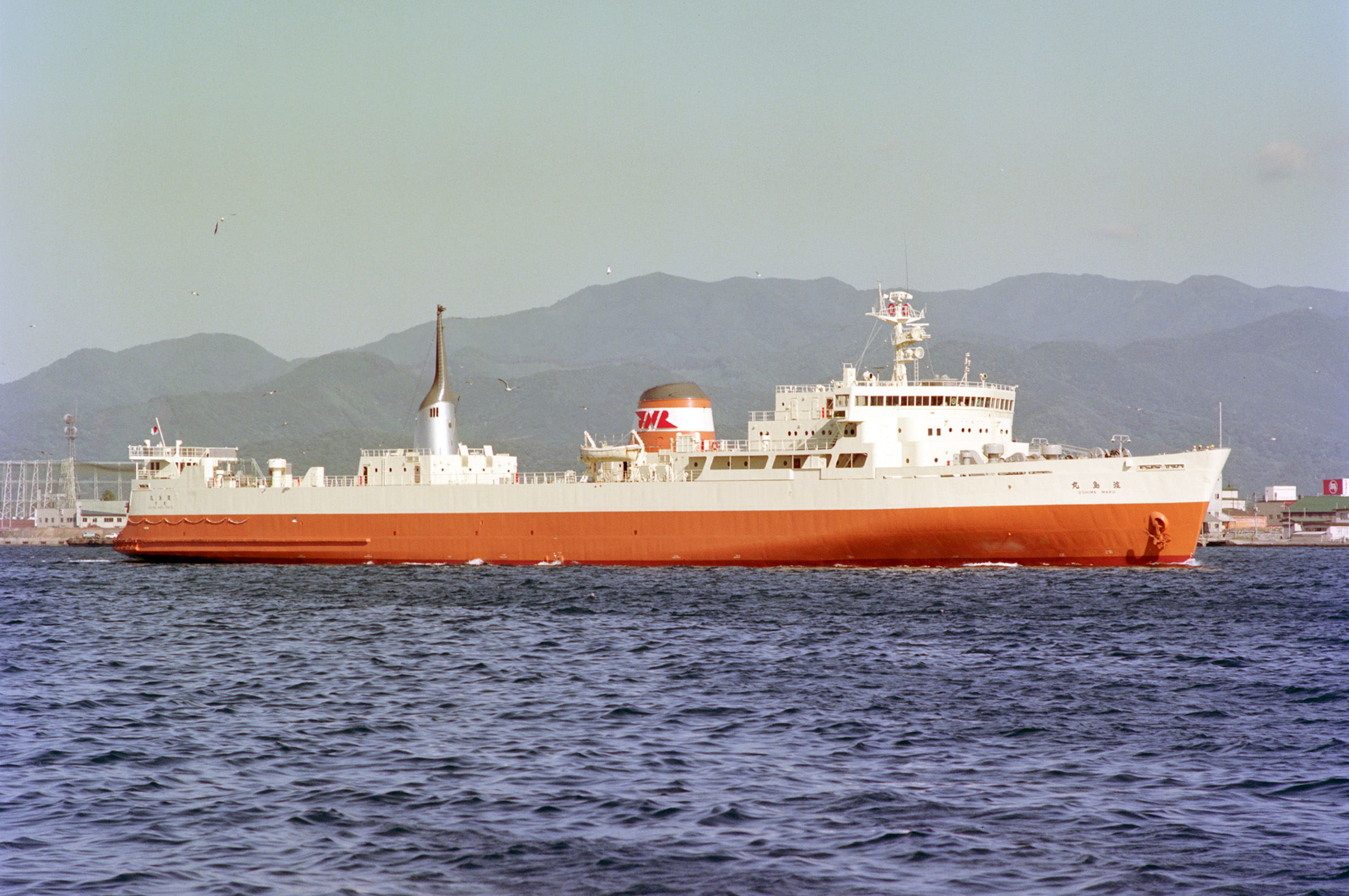 The Japanese National Railways train ferry between Aomori and Hakodate MS OSHIMA MARU 2 arriving in Aomori port